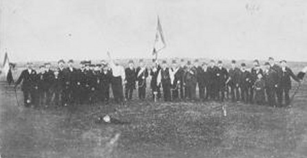 Exerzierweide, a former military exercise ground in Altona, Hamburg, Germany. Partly used as sport ground and as such in 1903 venue of the final of the first German association football championship.